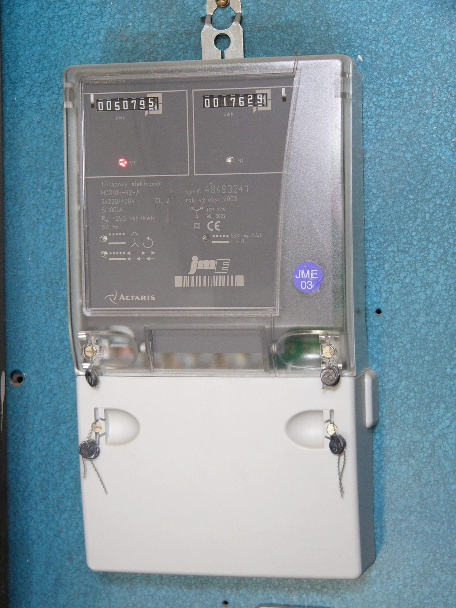 Czech multitariff meter